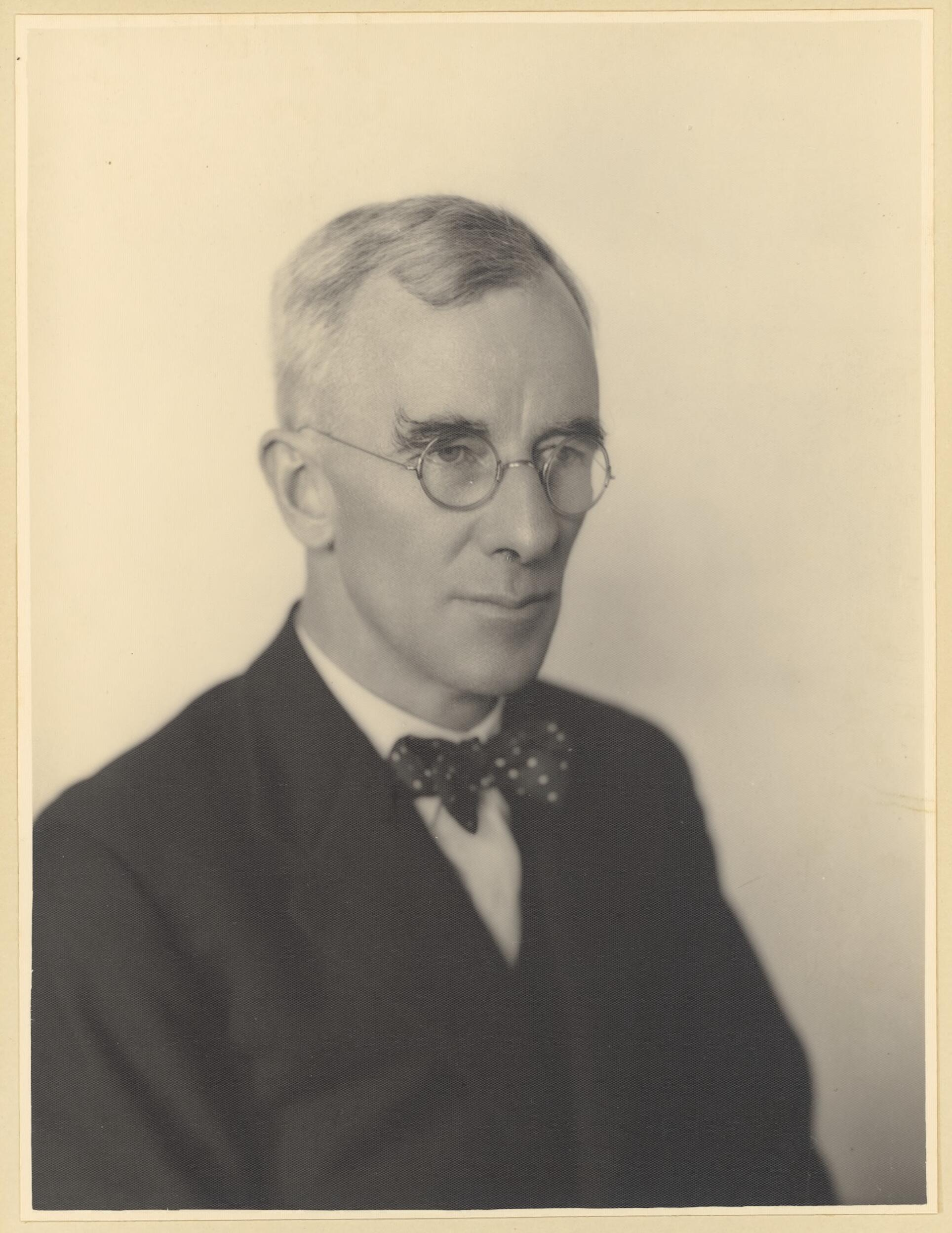 Sir Henry Somers Gullett, Australian politician